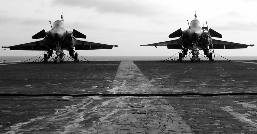 Nuclear aircraft carrier Charles de Gaulle (R 91)